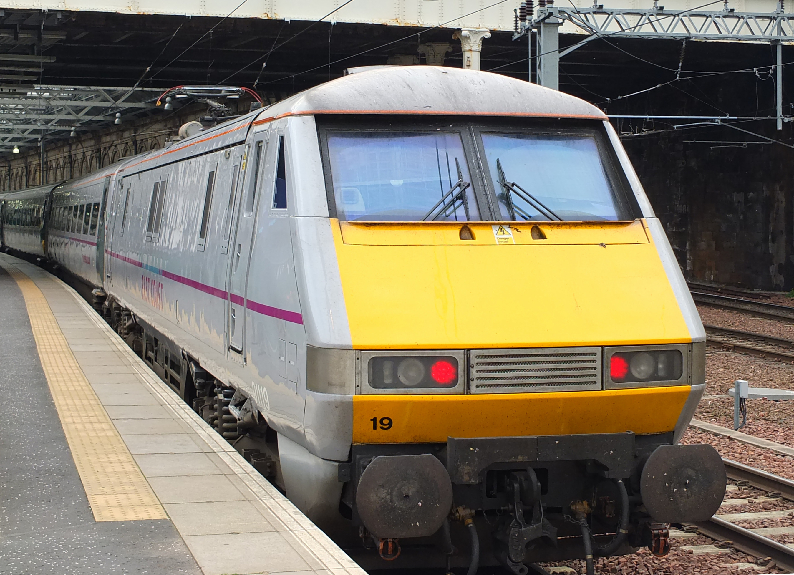 East Coast Class 91 Electric Loco 91 119 in Waverley Station (Edinburgh).